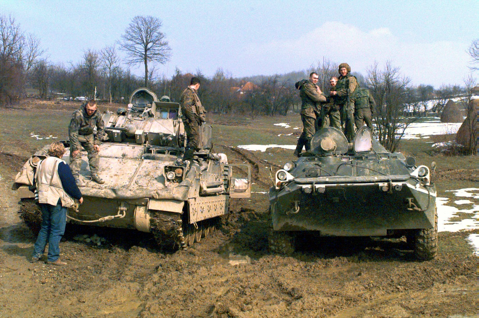 A Russian BTR 80 Personnel Carrier (right) from the Russian Military Police, 1st Battalion Airborne Brigade, 76th Airborne Division parks next to a Bradley Fighting Vehicle from B troop, 3rd Squadron, 4th Cavalry Regiment, 2nd Brigade, 1st Armored Division for a moment during a joint patrol around the Serbian town of Zvornik on the afternoon of 29 February 96 in support of Operation Joint Endeavor. Caption: ID: 960229-A-5792S-017 Location: ZVORNIK, Bosnia and Herzegovina